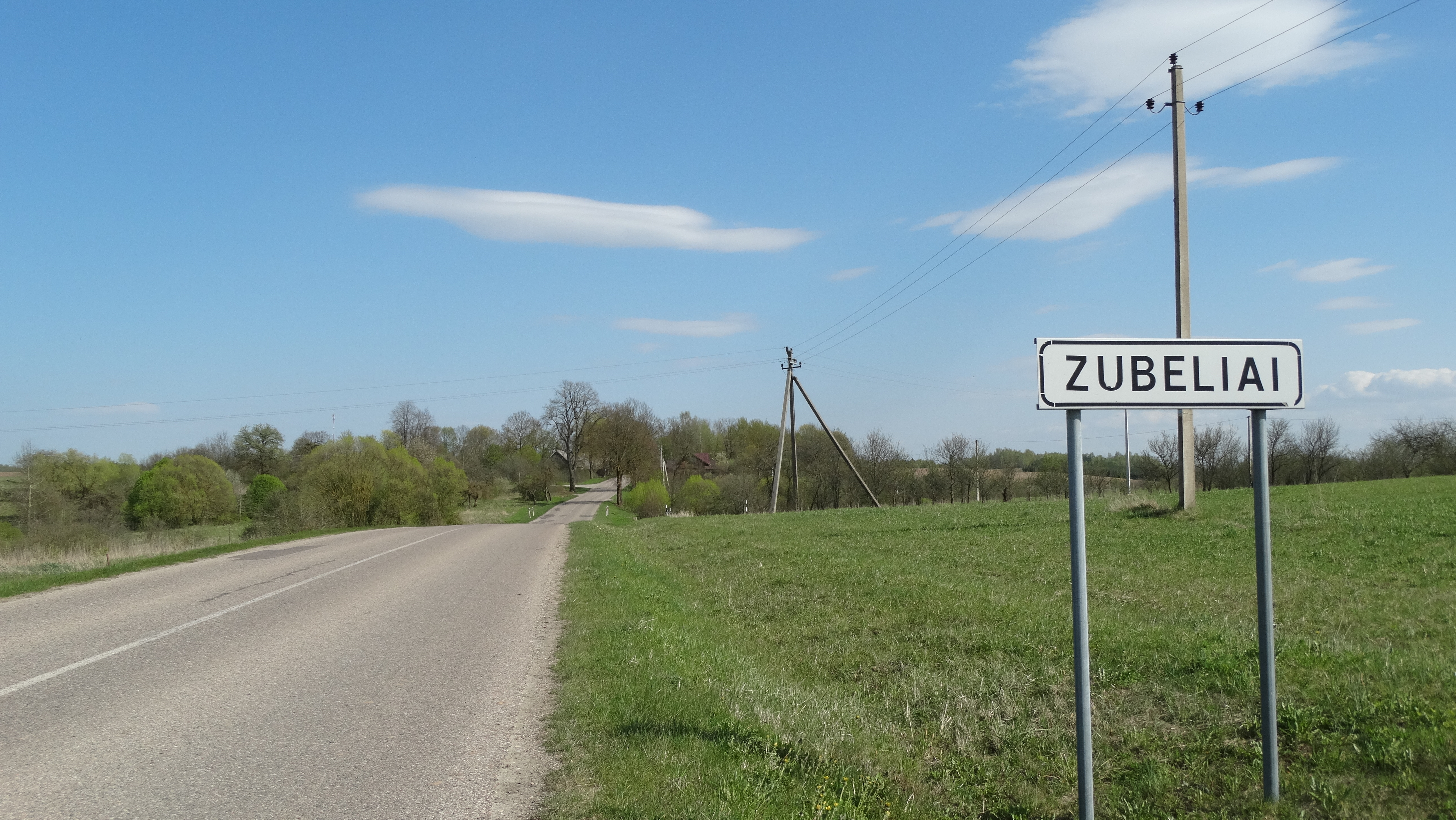 Zubeliai, Širvintos District, Lithuania